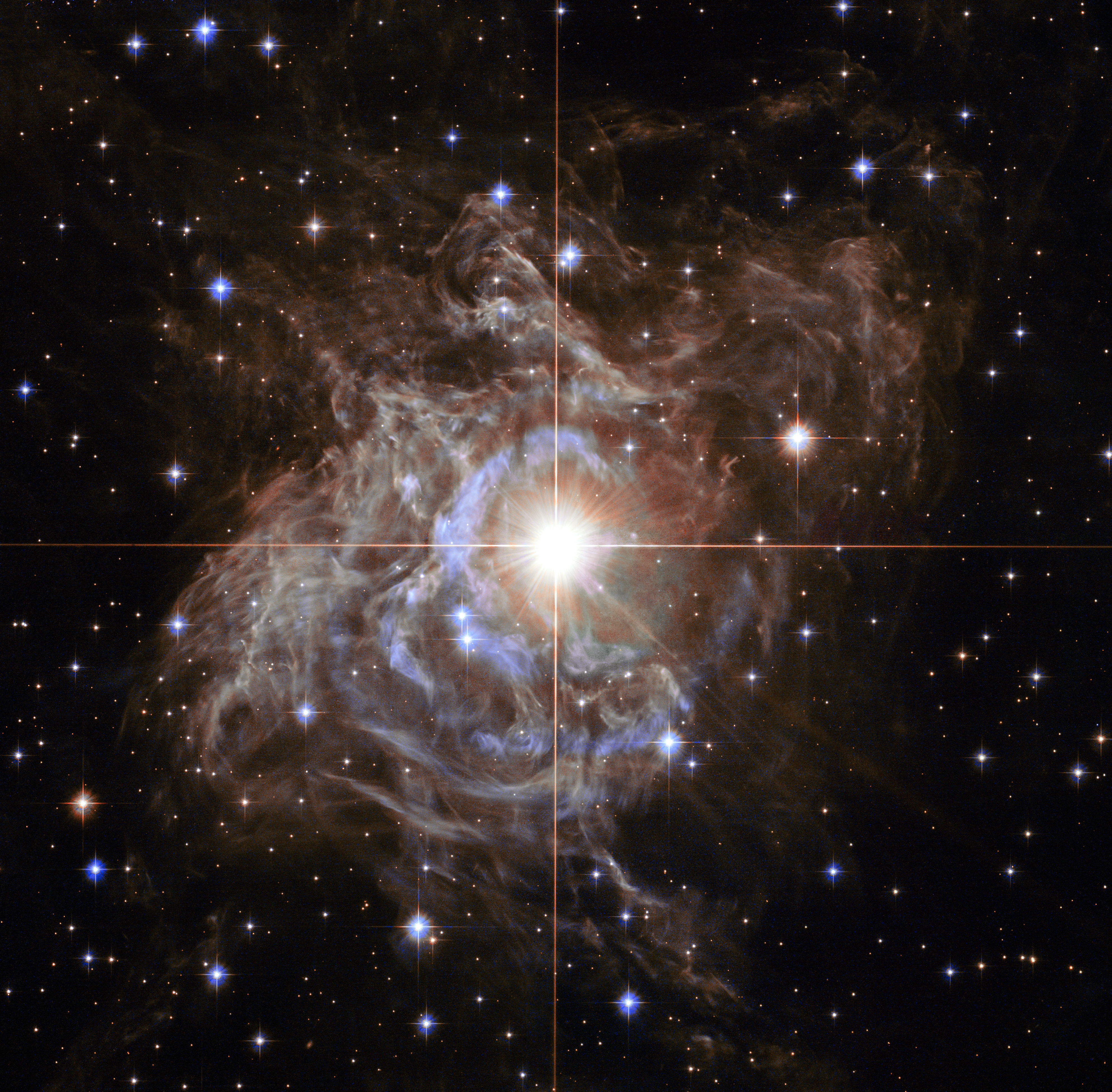 This Hubble image shows RS Puppis, a type of variable star known as a Cepheid variable. As variable stars go, Cepheids have comparatively long periods— RS Puppis, for example, varies in brightness by almost a factor of five every 40 or so days. RS Puppis is unusual; this variable star is shrouded by thick, dark clouds of dust enabling a phenomenon known as a light echo to be shown with stunning clarity. These Hubble observations show the ethereal object embedded in its dusty environment, set against a dark sky filled with background galaxies.